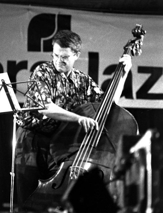 Charlie Haden; taken at Pescara Jazz Festival 1990 in Italy. Allen-Haden-Motian trio.